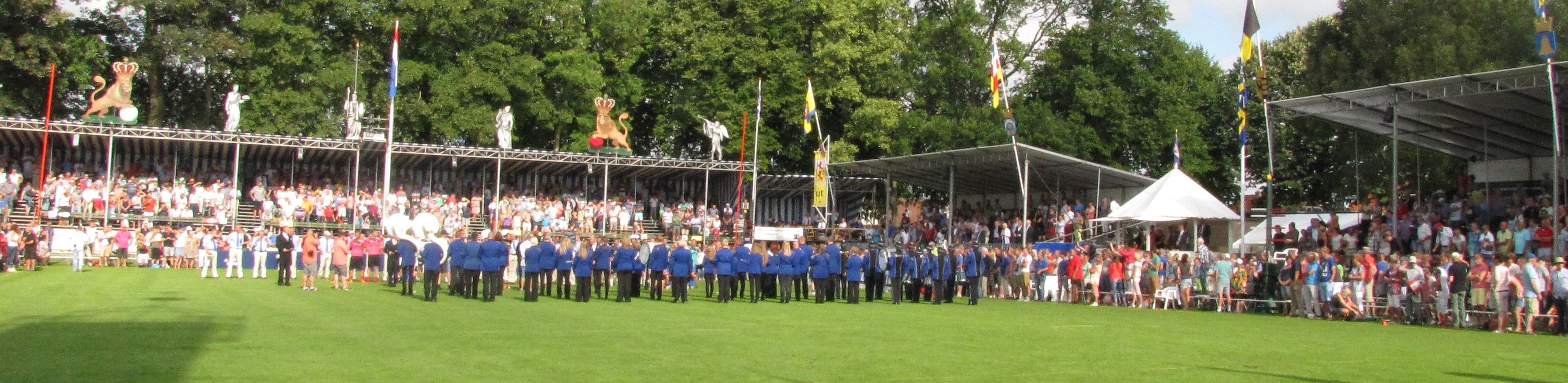 The opening ceremony at the PC of 2014Frysk: Iepening fan de PC fan 2014